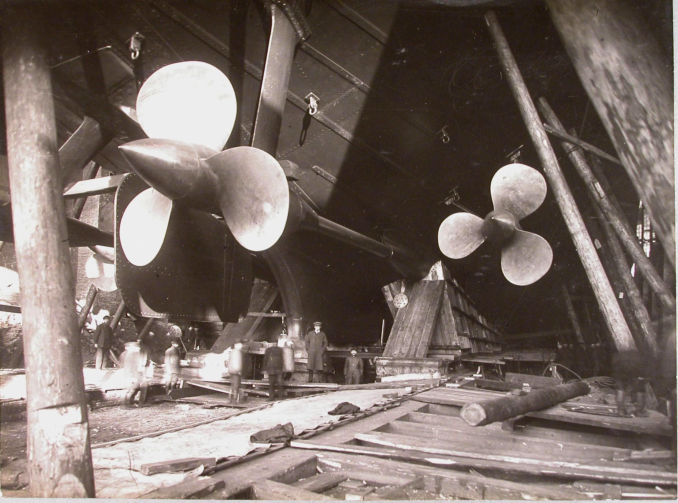 View of a Gangut-class battleship Poltava on a building slipway